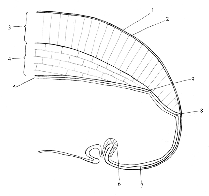 scheme of shell margin of Mollusca